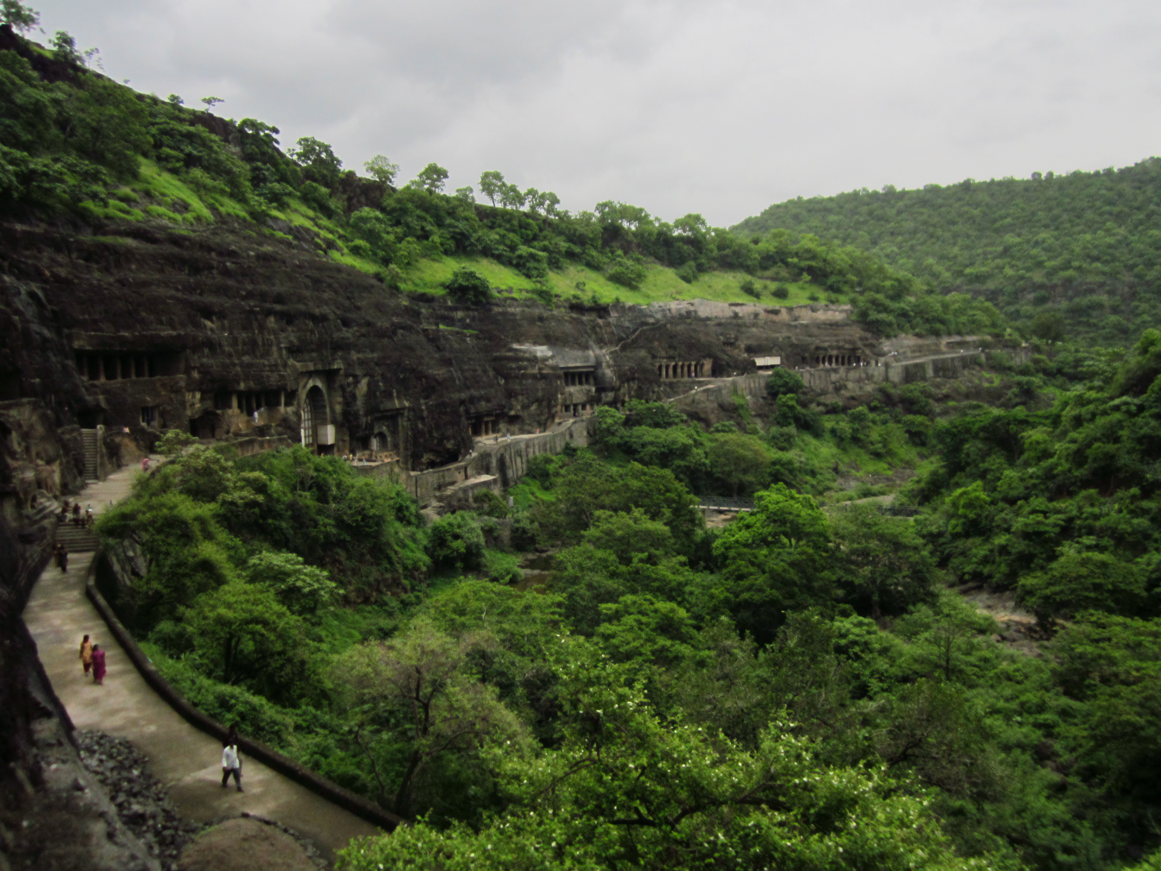 Ajanta Caves Panorama